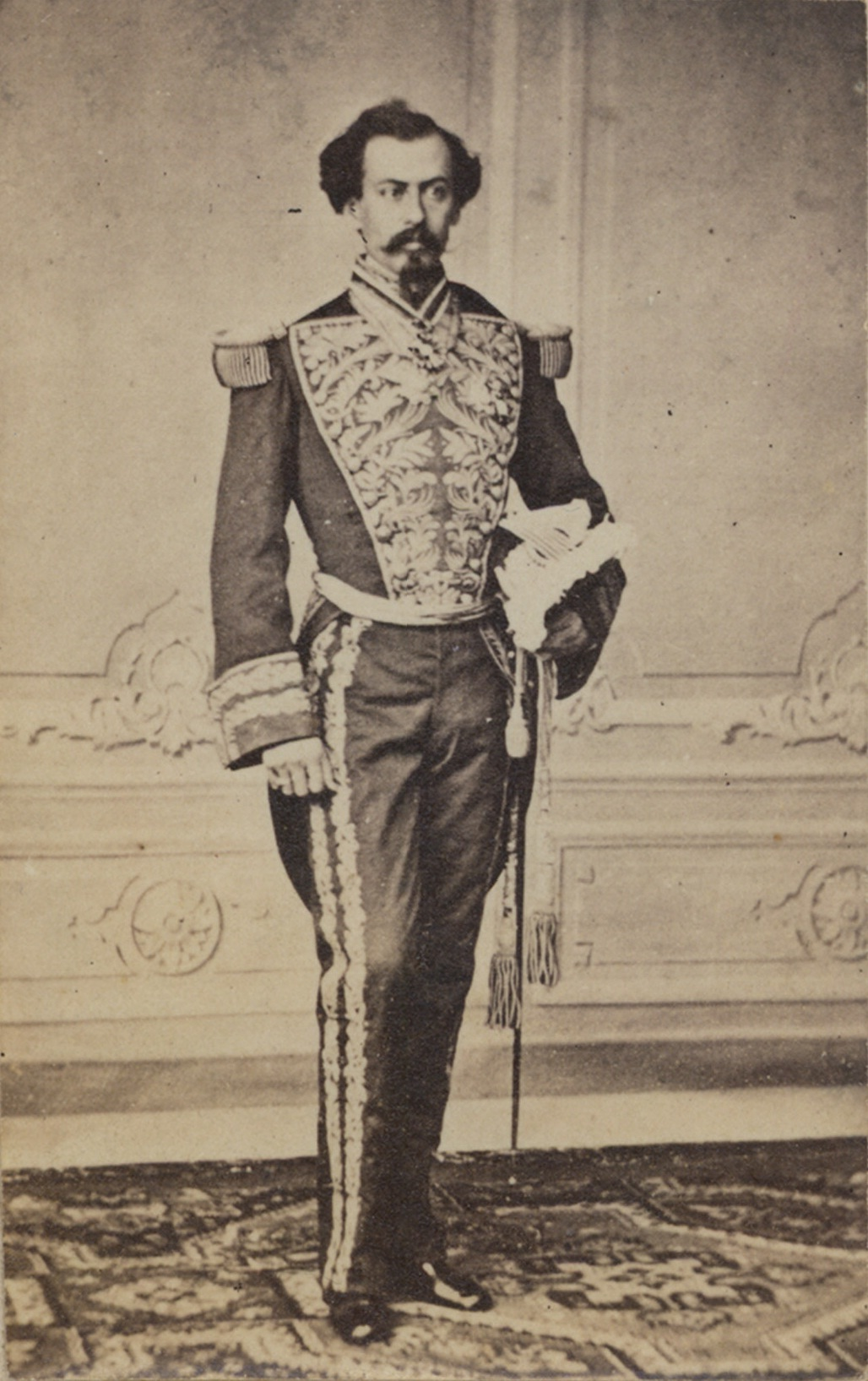 General Miguel Gregorio de la Luz Atenógenes Miramón y Tarelo (1832-1867), former president of Mexico